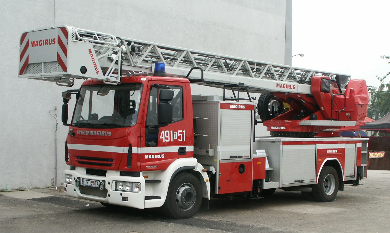 Polish fire engine Iveco-Magirus 160E30 with SCD-30 ladder, of fire brigade in Starachowice. Ladder range - 30 m.